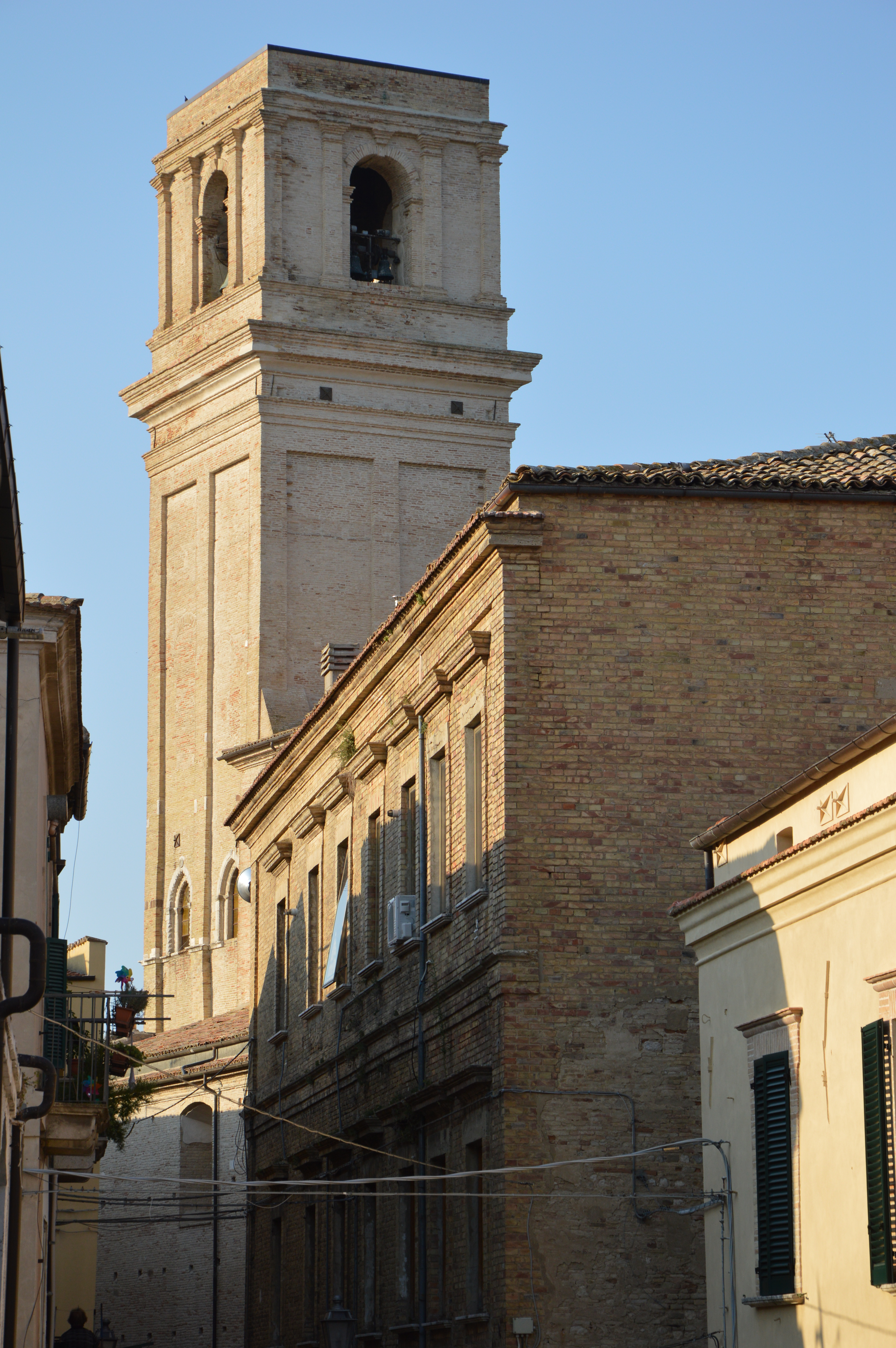 Campanile